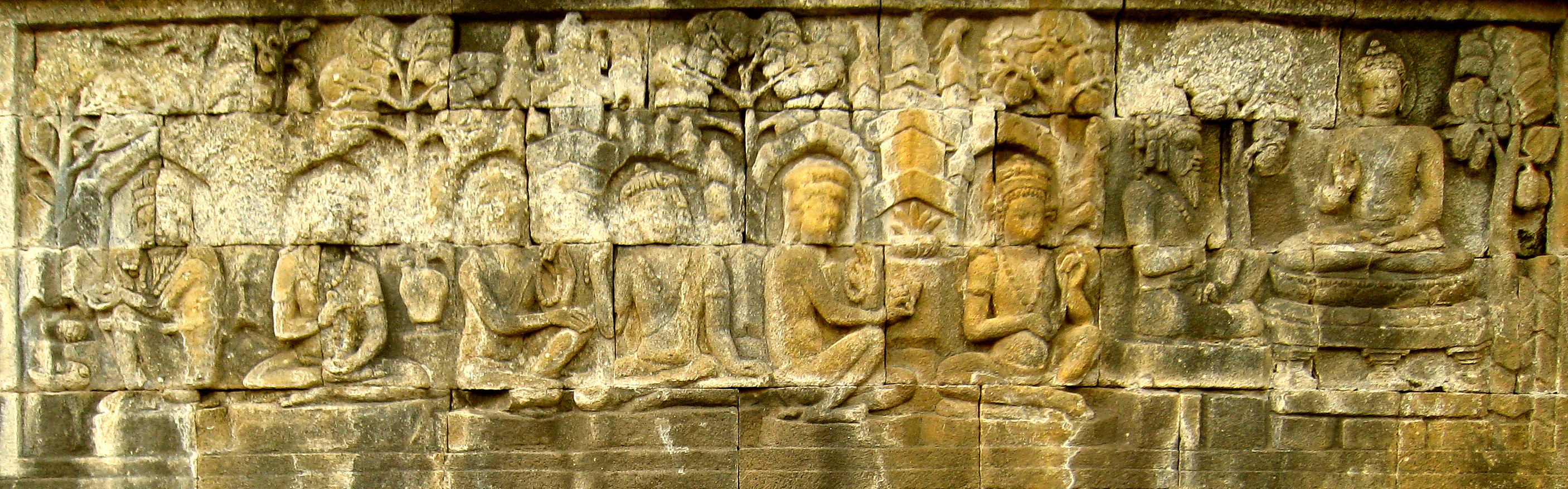 099 W-72, Arada Kalama offers the Bodhisattva Joint Leadership at Borobudur Photograph of a Lalitavistara relief at Borobudur in Java, Indonesia taken by Anandajoti.